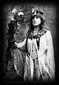 Picture of Moina Mathers from her performance in the Rites of Isis in Paris, 1899.